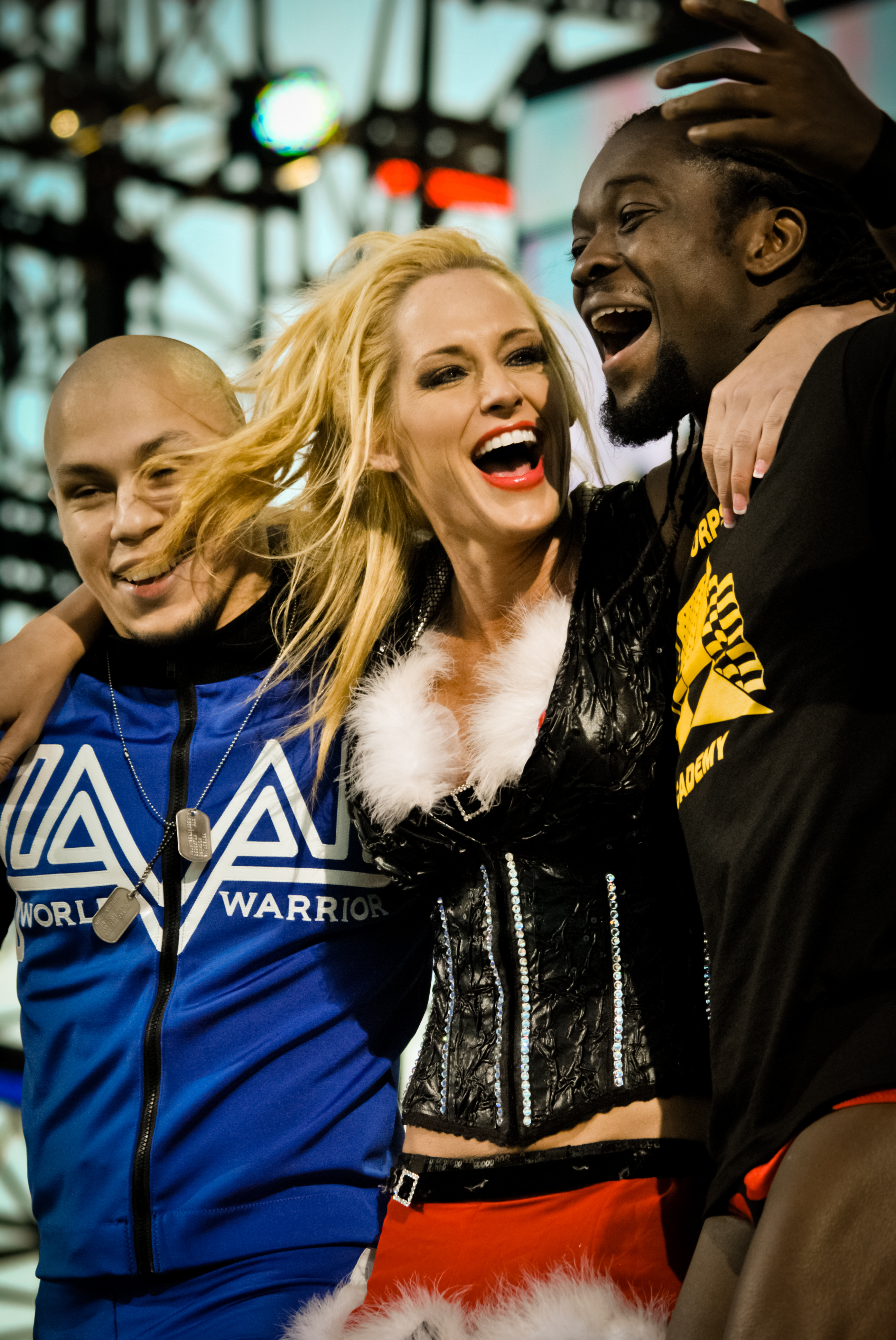 From left to right: Kaval, Michelle McCool, and Kofi Kingston at WWE's Tribute to the Troops show on December 11, 2010 in Fort Hood, Texas.